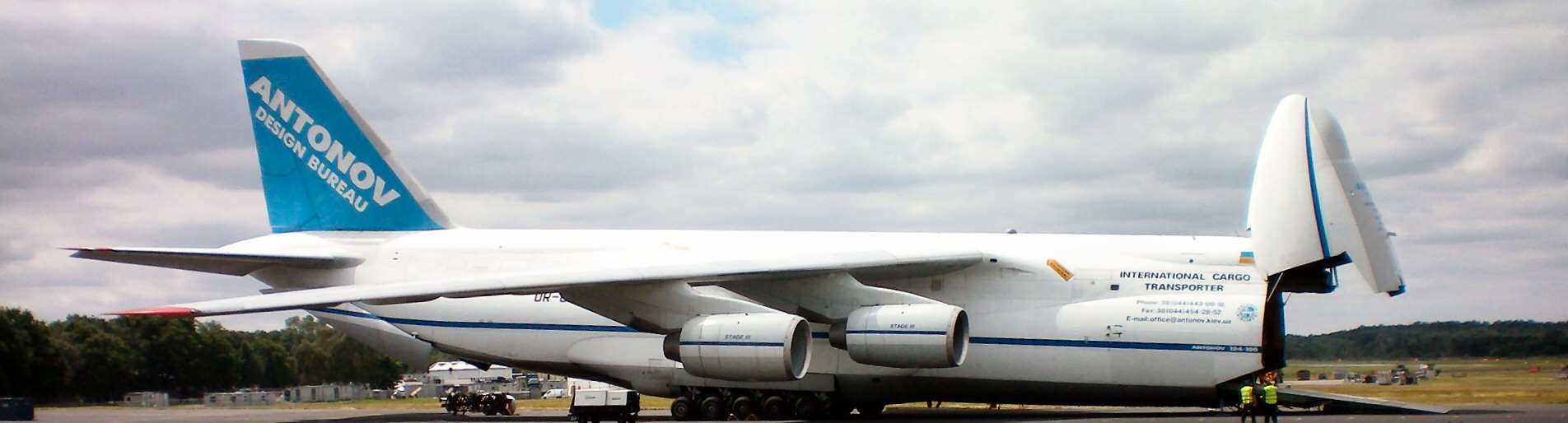 An 124-100 with ramp down; note the forward-tilted fuselage and retracted front landing gear, facilitating cargo loading.